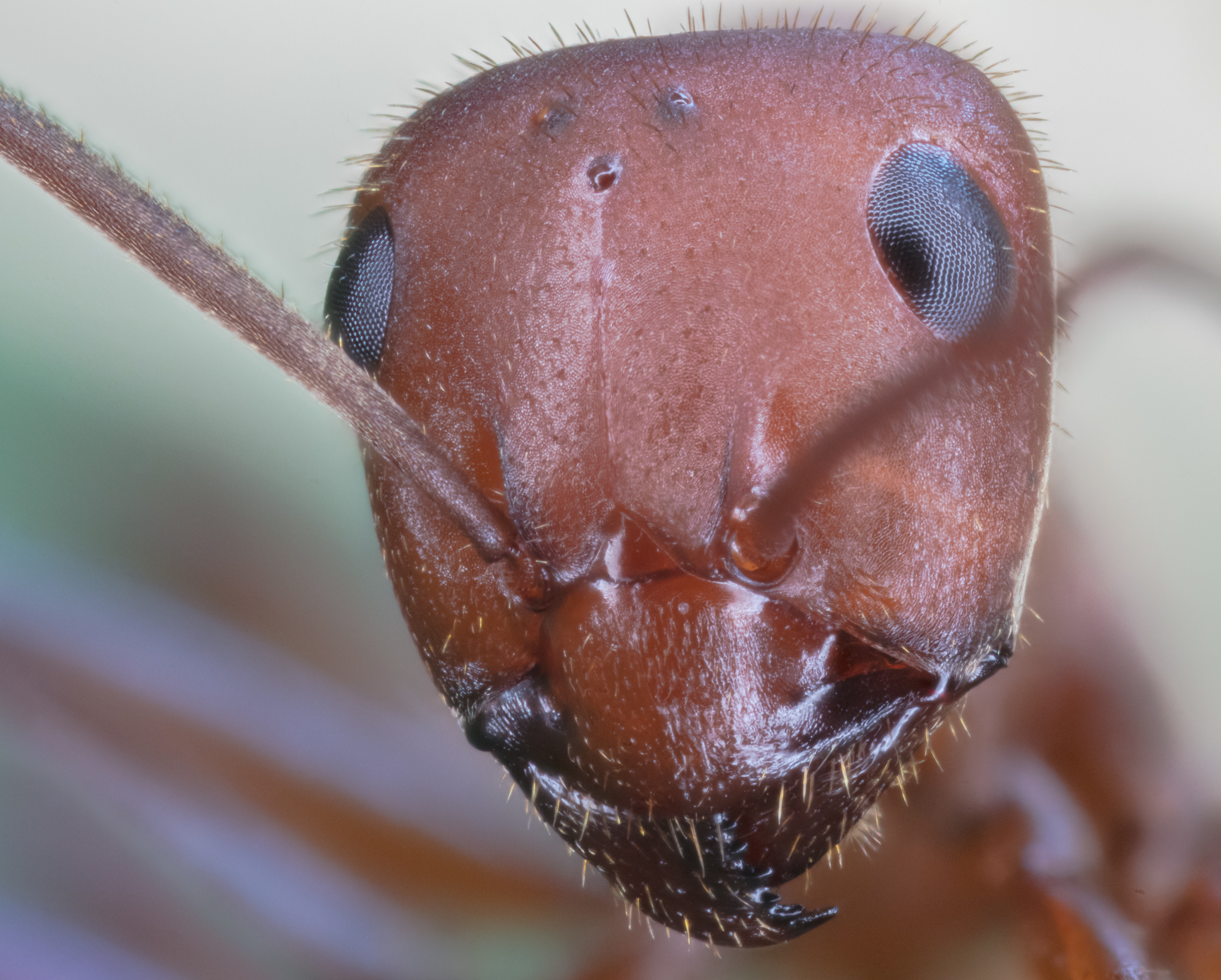 Red wood ant (Formica rufa), Hartelholz, Munich, Germany